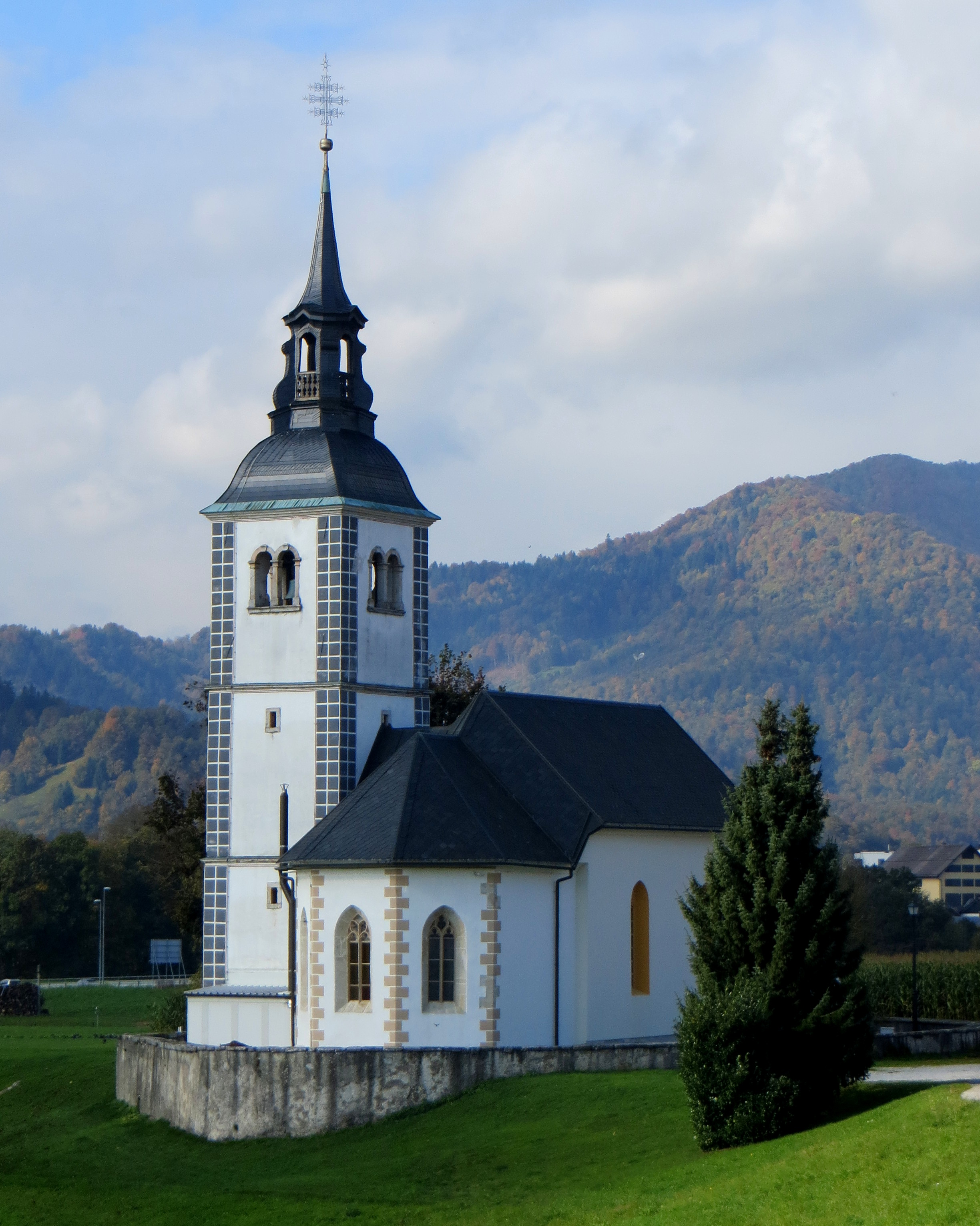 John the Baptist Church in Suha, Municipality of Škofja Loka, Slovenia